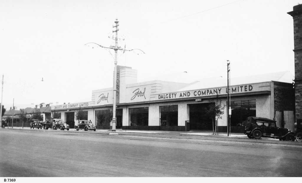 The smart modern premises of Dalgety and Company's Ford dealership, in the Art Deco style of the day. [On back of photograph] 'Acres 349 and 350 / Wakefield Street, south side / 7th February 1938 / Dalgety's premises were erected in 1937